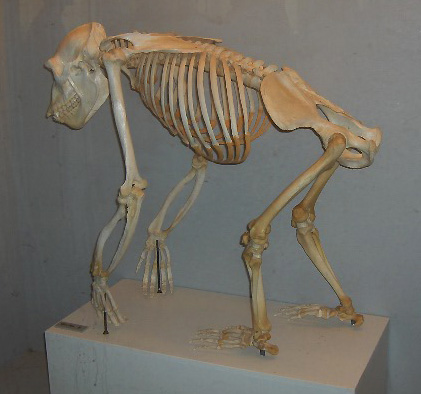 Species Pan troglodytes (skeleton) Family Hominidae